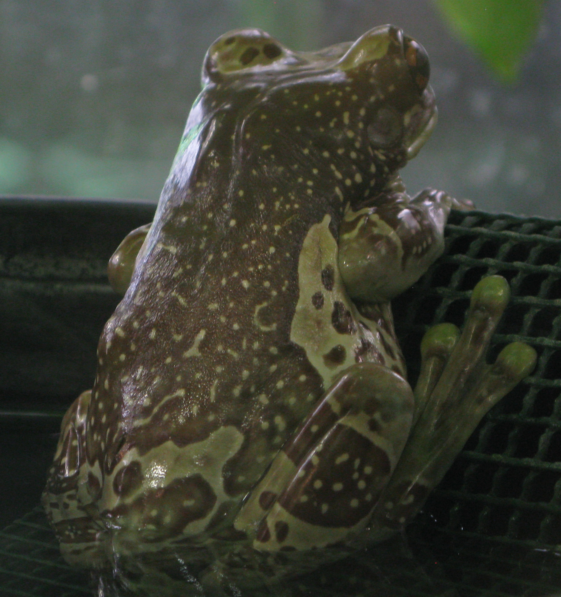 Mission golden-eyed tree frog (trachycephalus resinifictrix), dorsal view, ménagerie du Jardin des plantes, Paris.